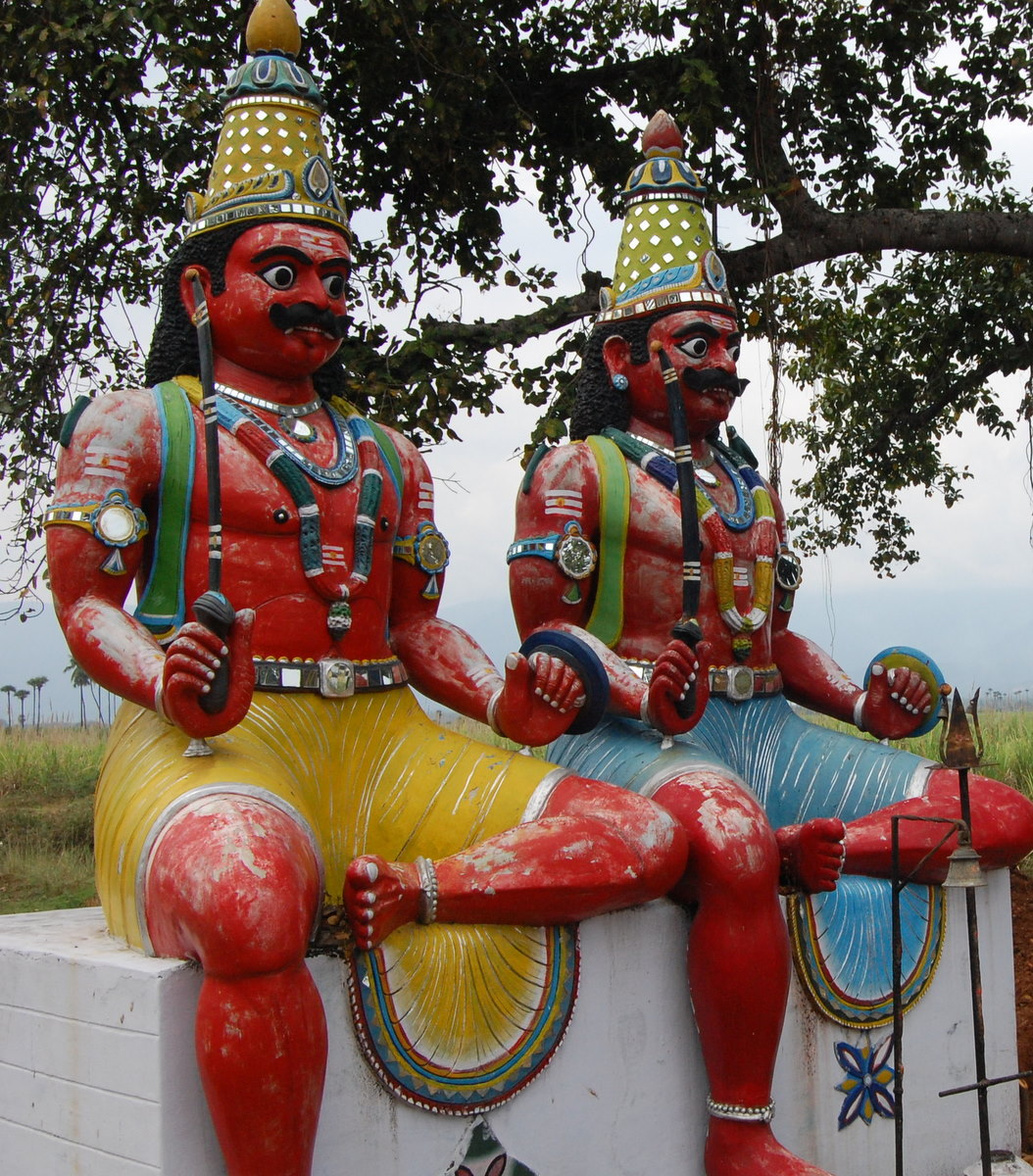 Ayyanar statue at a village near Gobi